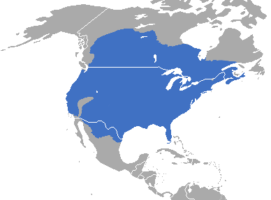 Striped Skunk (Mephitis mephitis) range map, made by me with help of Map depending on the range map at IUCN red list. Includes colonial borders.